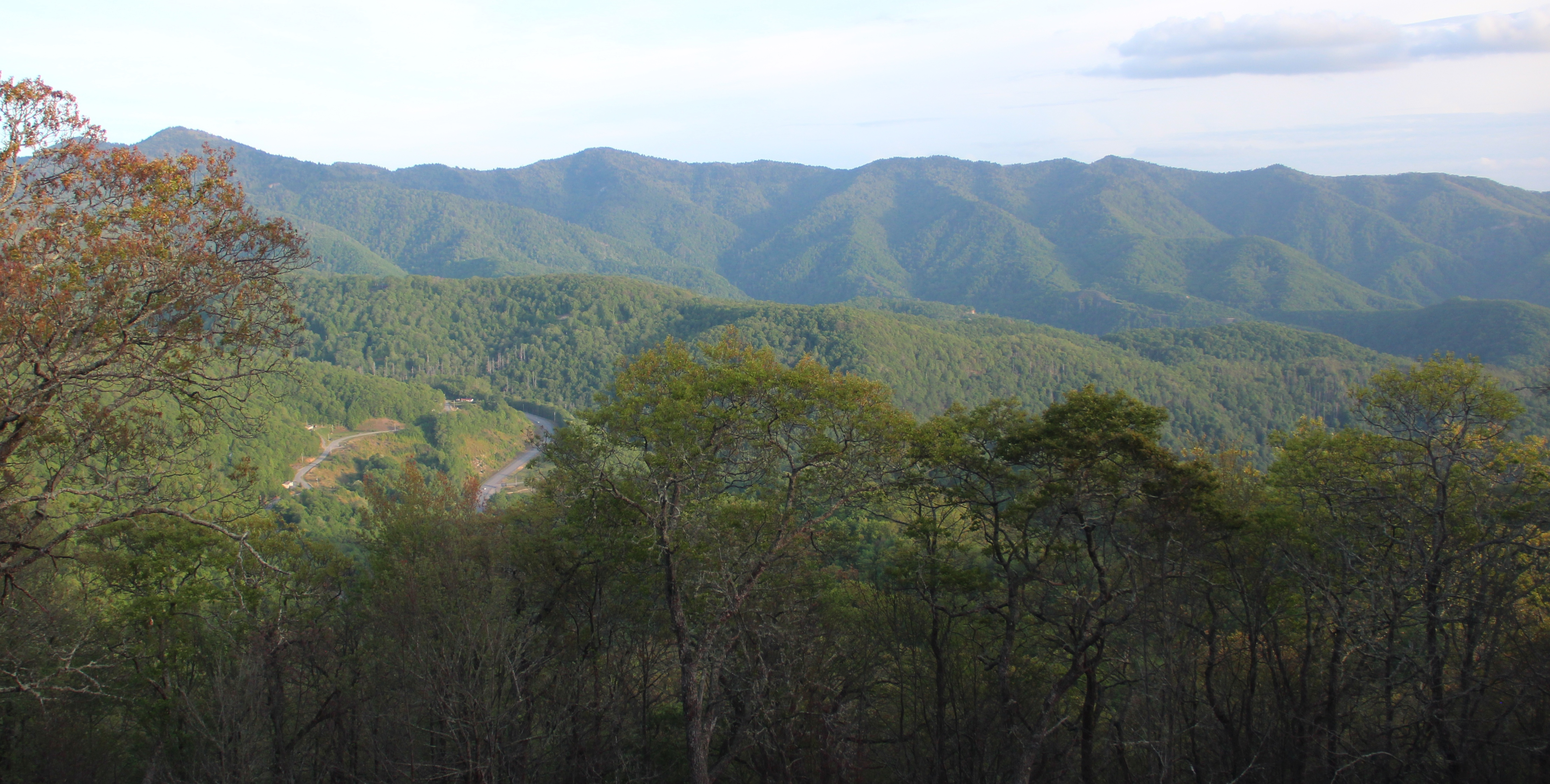 Waterrock Knob viewed from the Plott Balsams overlook